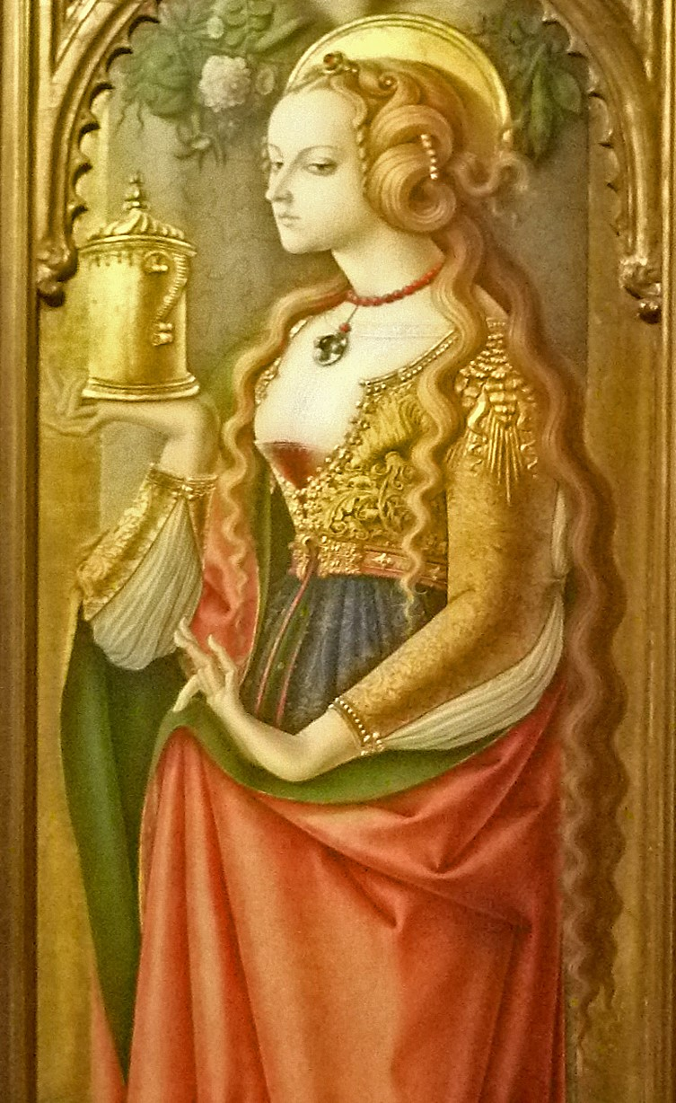 This is a cropped image of an altarpiece of Mary Magdalene by Carl Crivelli, dated to circa 1480-1487.